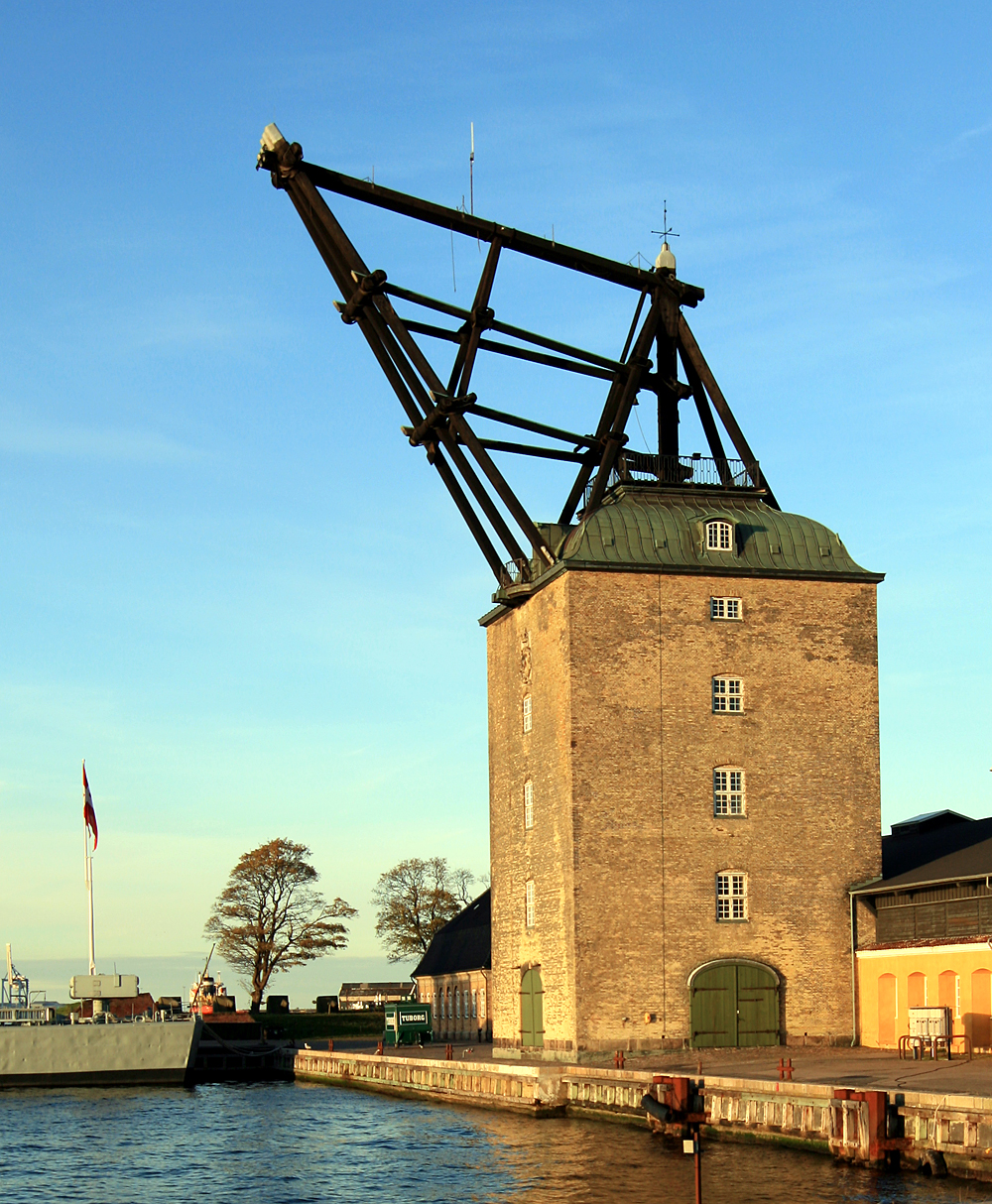 Masting sheers, Holmen, Copenhagen. Built 1746. Architect: Philp de Lange.